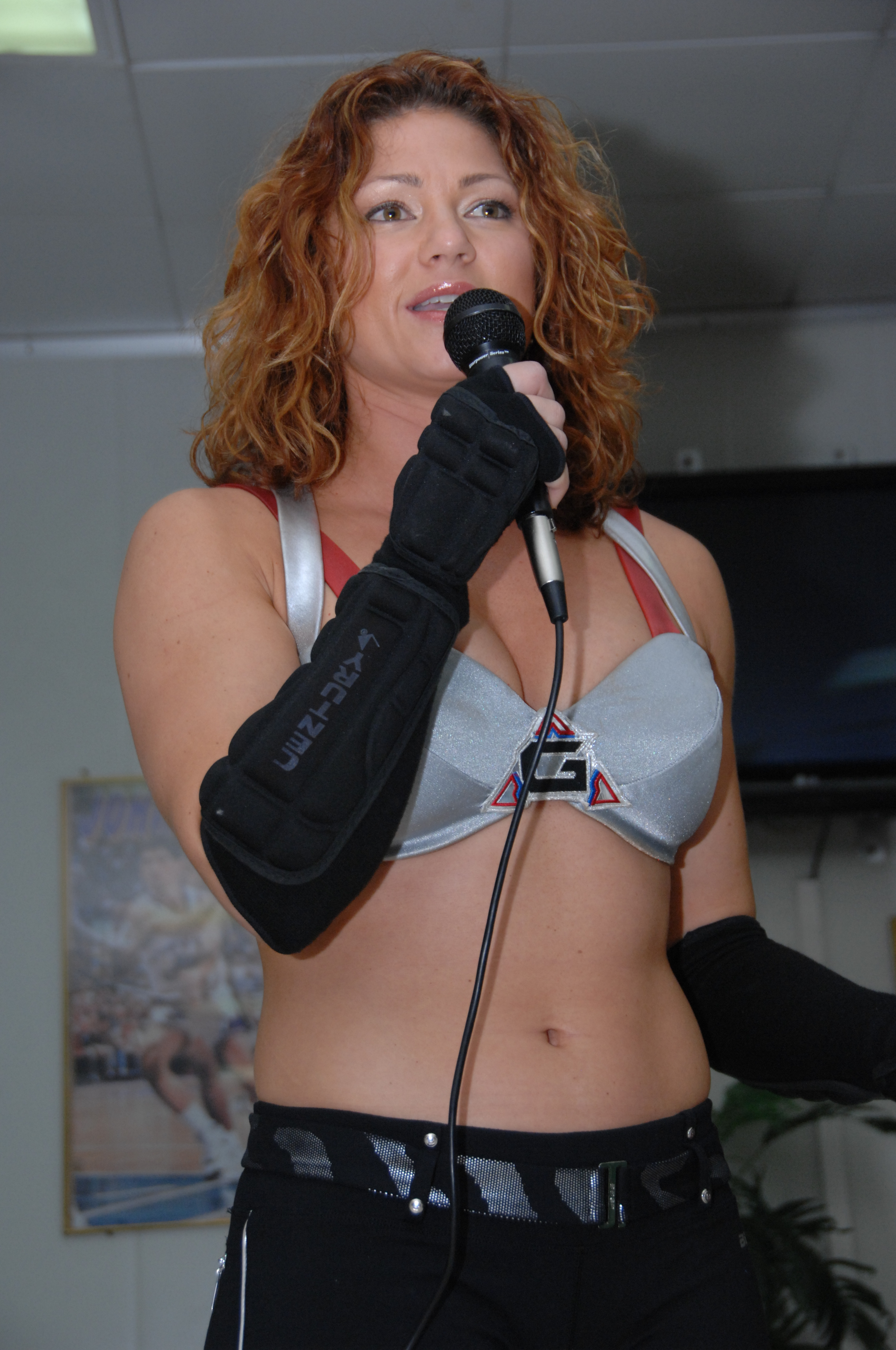 Valerie Waugaman (Siren) from "American Gladiator".